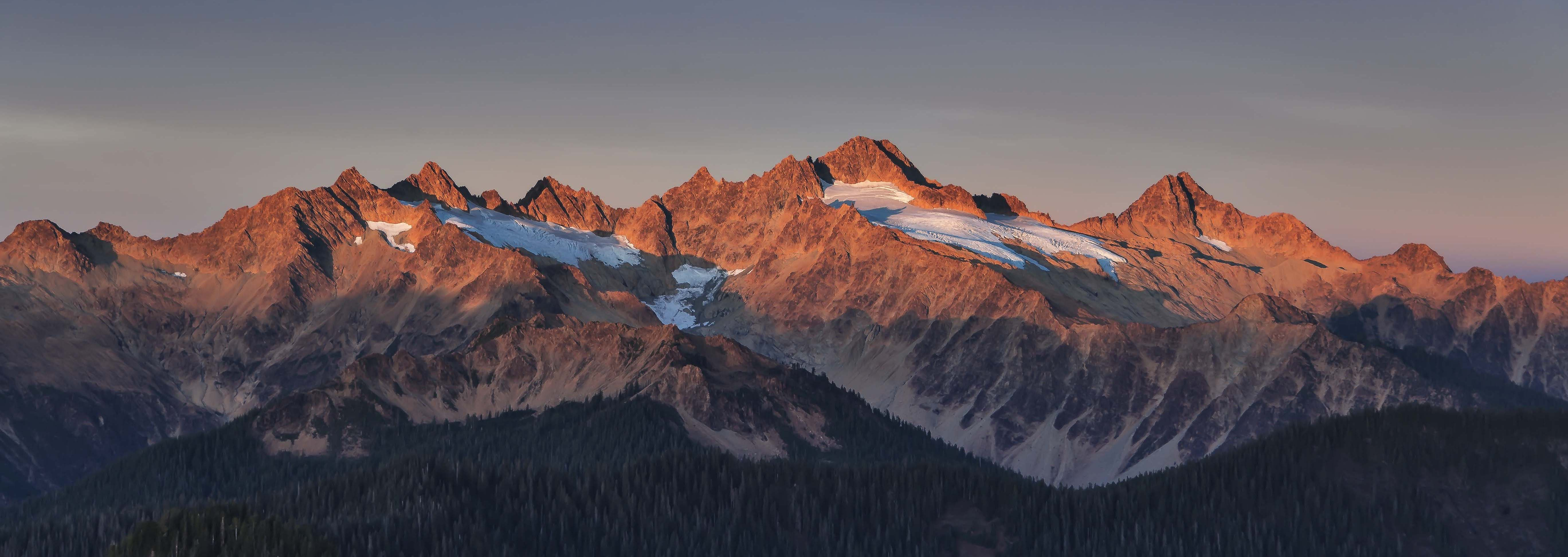 Twin Sisters Mountain in Summer by Andy Porter, Mt Baker Snoqualmie National Forest